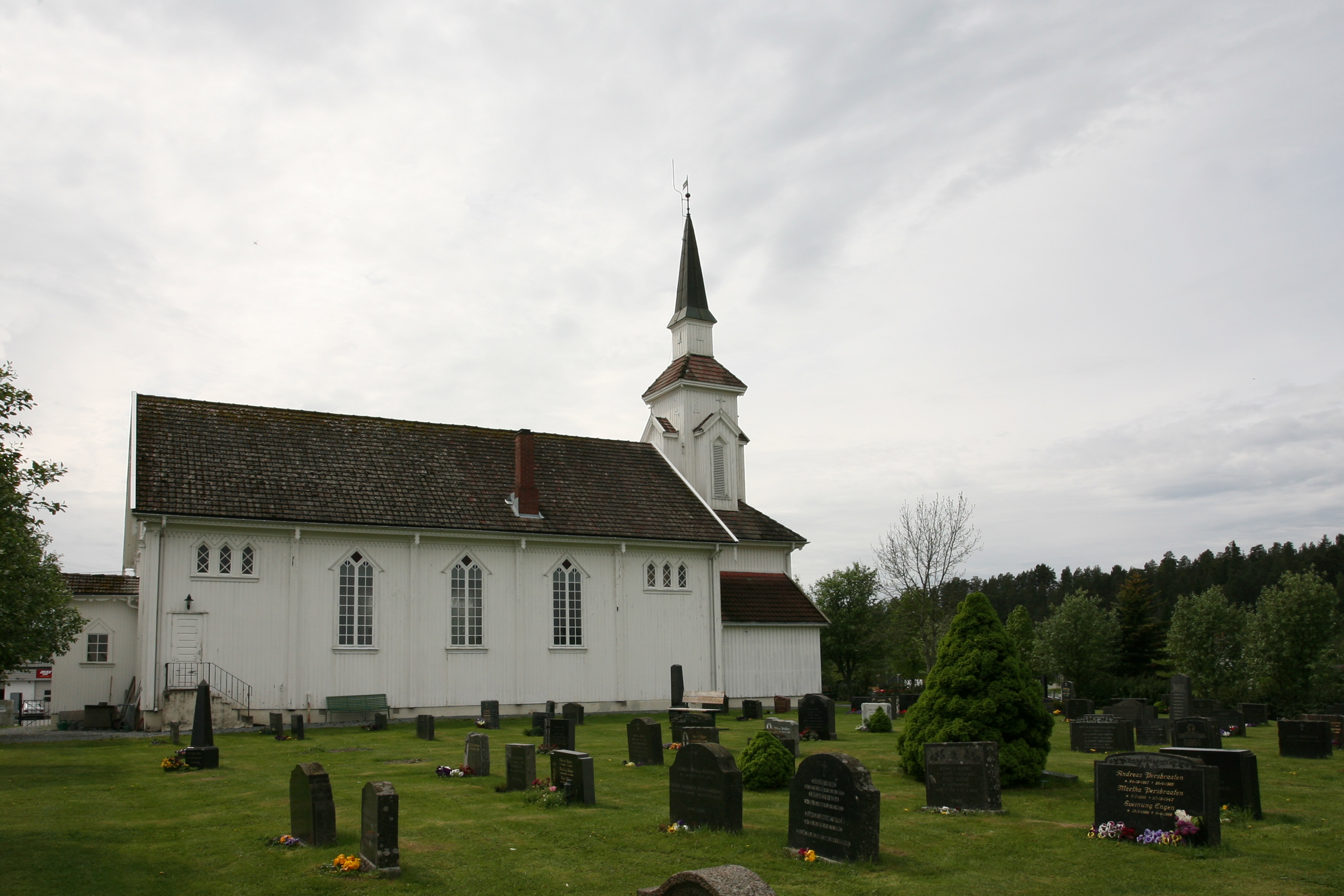 Picture of Tyristrand kirke (Buskerud - Norway)